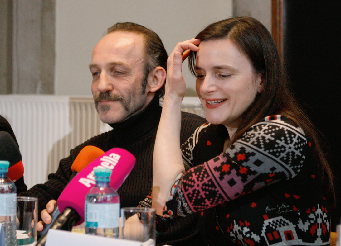 Barbara Albert and Karl Markovics during the press conference in advance of the Austrian Film Awards 2011 at the Odeon theater in Vienna.